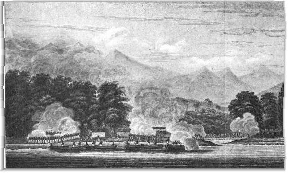 first naval attack against quallah battoo